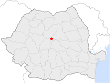 Location of Sighișoara in Romania.